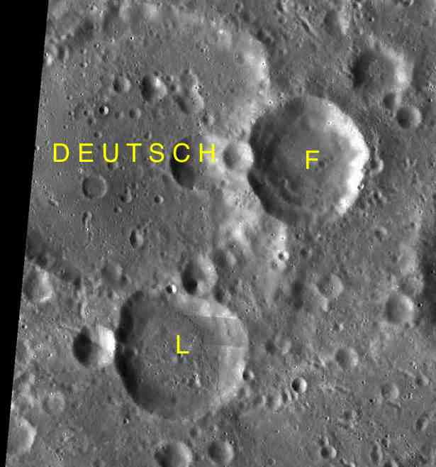 Part of the chart LAC-47 used for the presentation